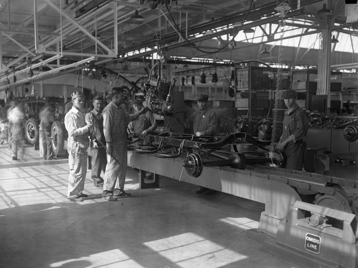 Title: Workers on the assembly line at Ford Motor plant in Long Beach Publication:Los Angeles Times Publication date:April 21, 1930 Notes:Handwriting on negative states "Ford Plant, Long Beach 1930" The Ford plant apparently opened in 1930.